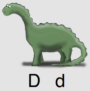 D is for dinosaur